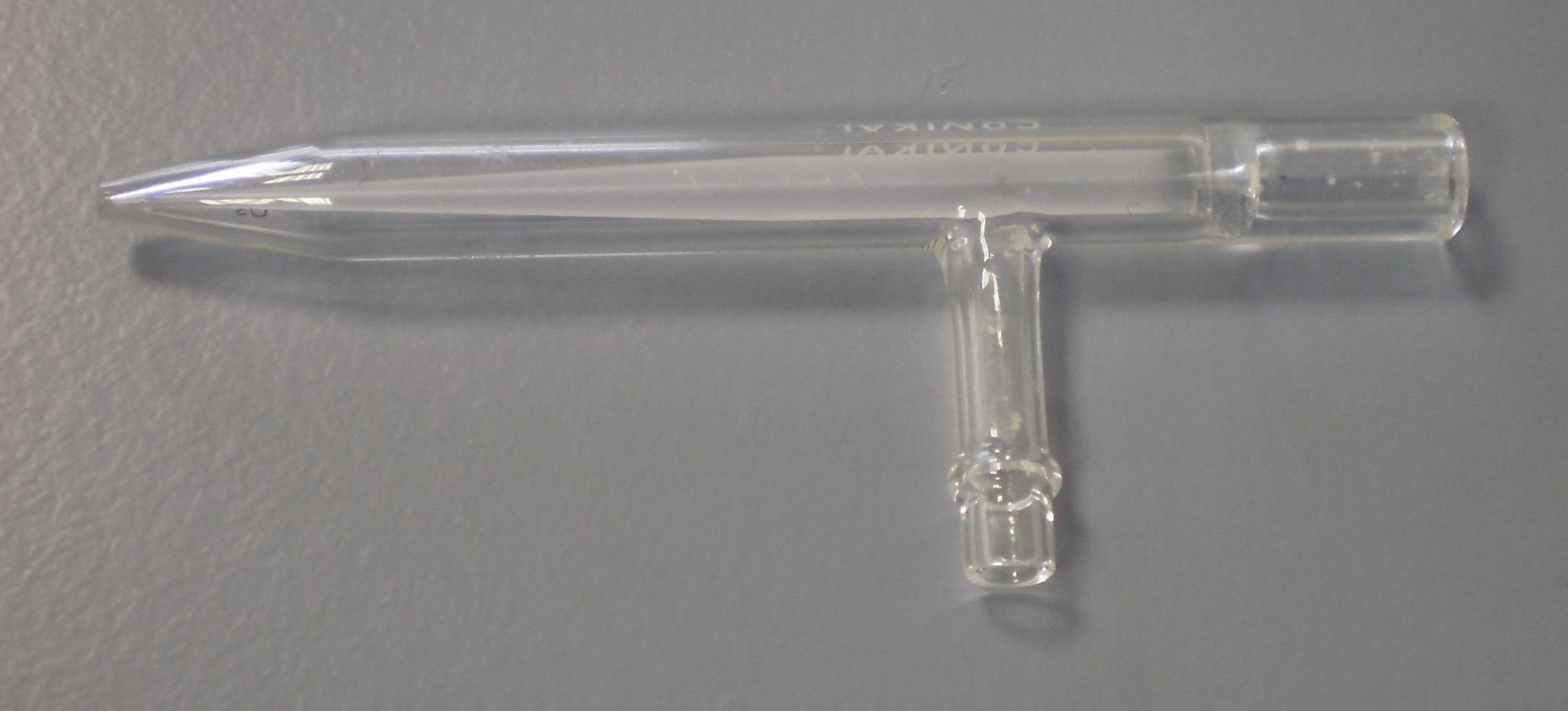 Concentric nebulizer